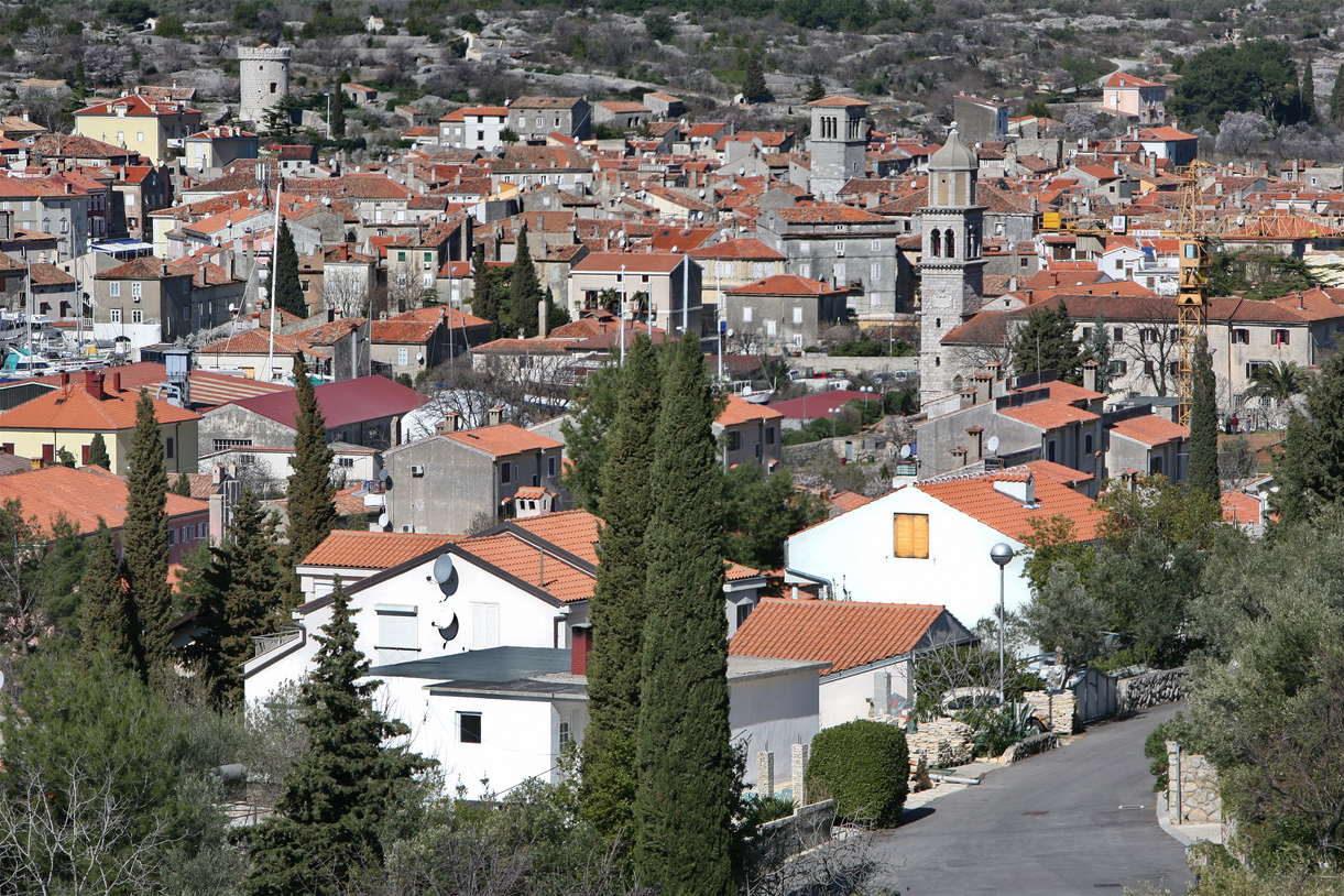 The city Cres March 16 2009.